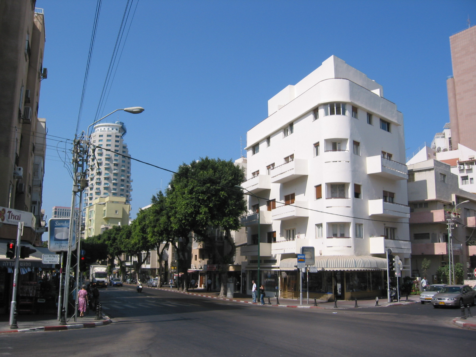 International Style House 10 Mendele Mokher Sfarim Street/55 Ben Yehuda Street, Tel Aviv